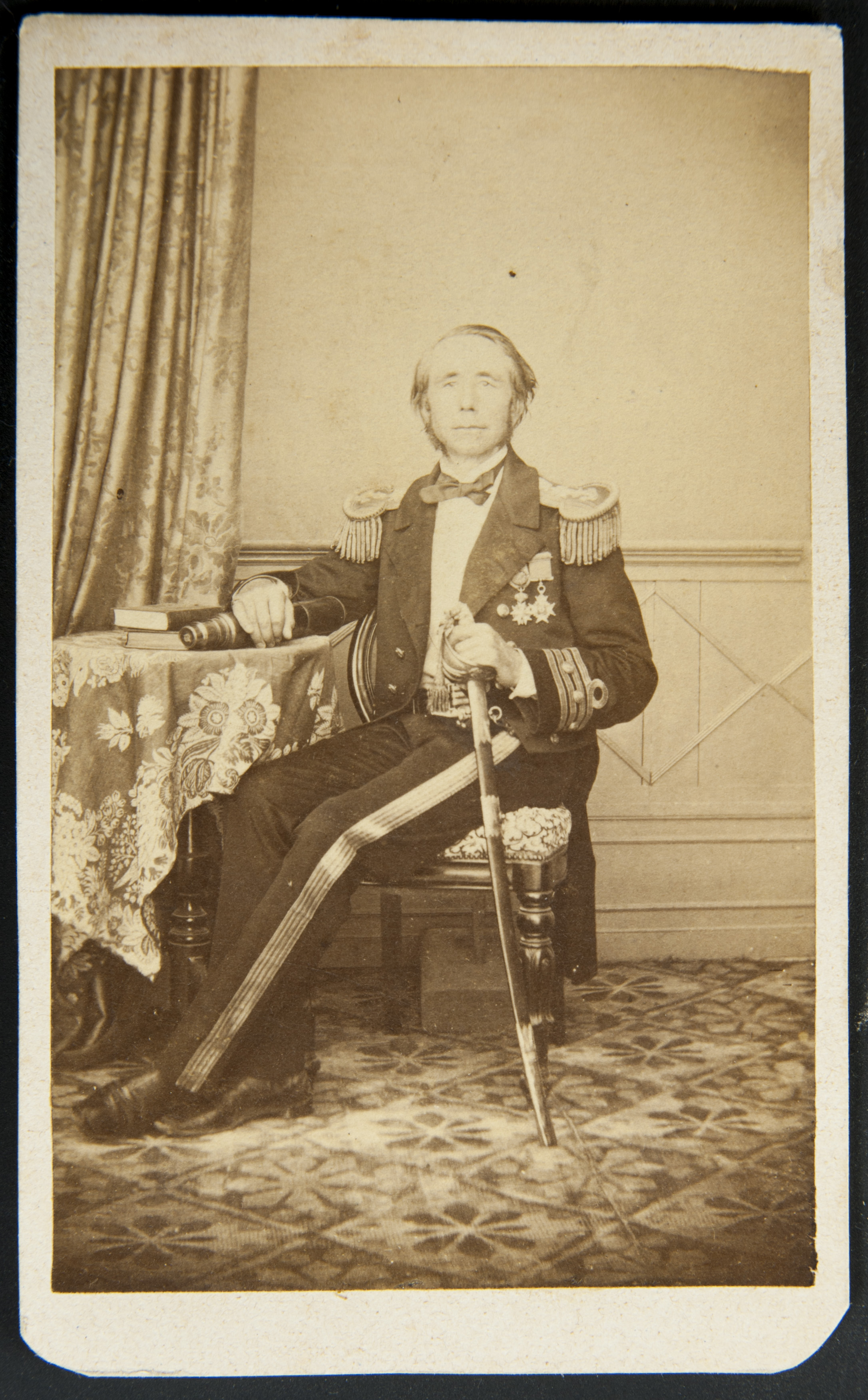 Carte de visite by Schembri & Zahra, Malta, ca 1860s. On the reverse there is a hand annotation "Captain Thos. A. B. Spratt RN"